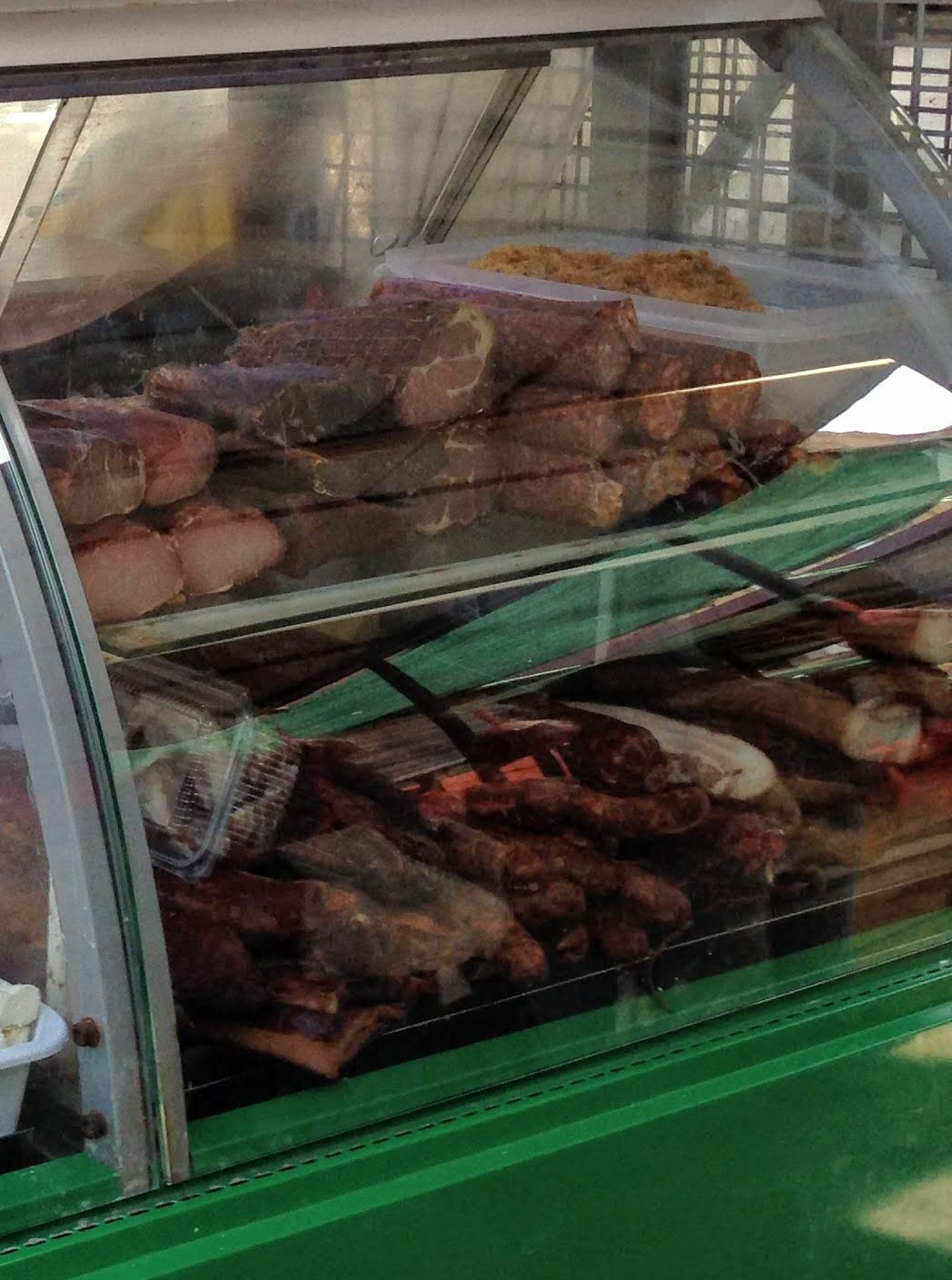 Prosciutto di Uzice region